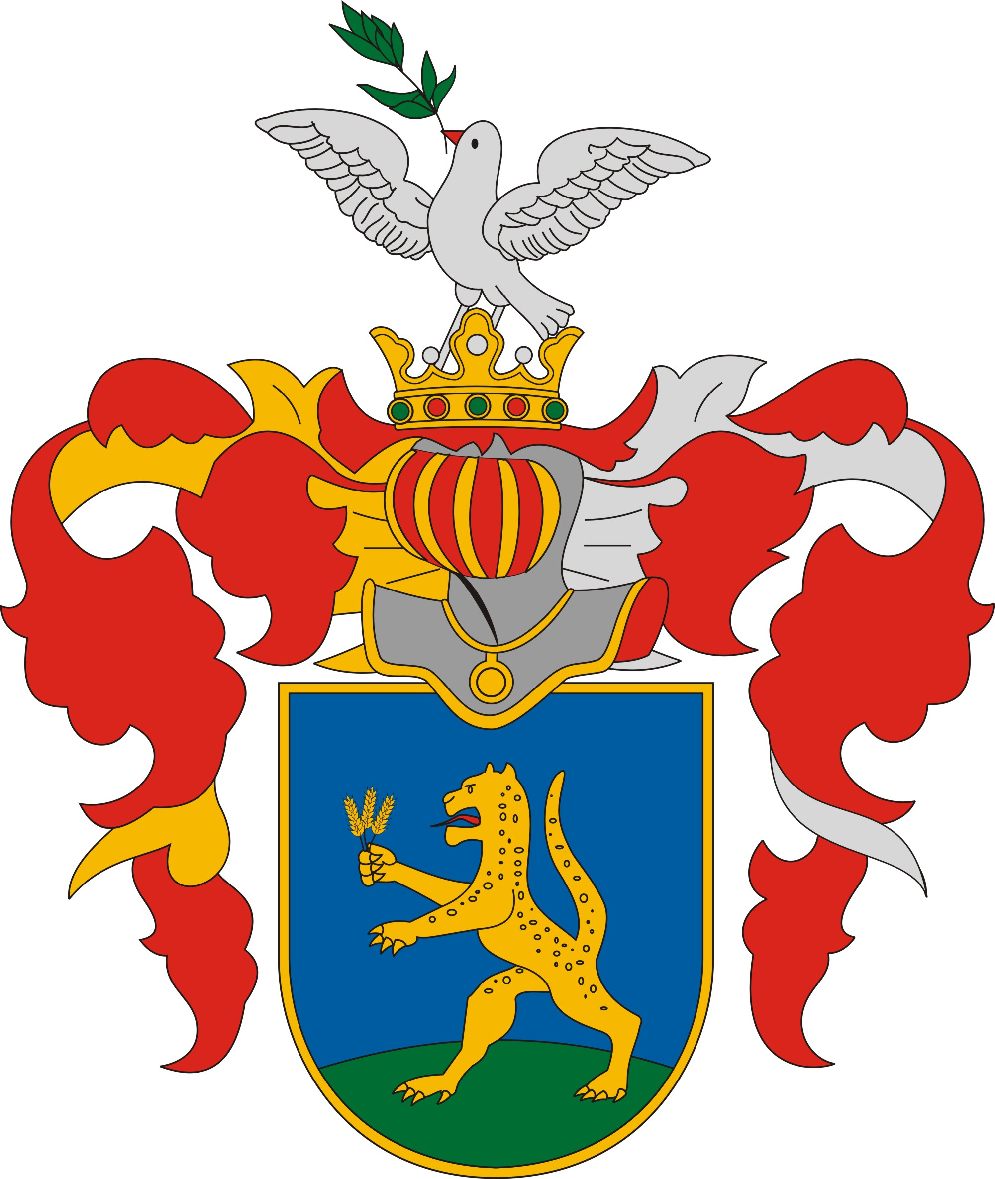 Coat of arms of Mezőszentgyörgy, Hungary